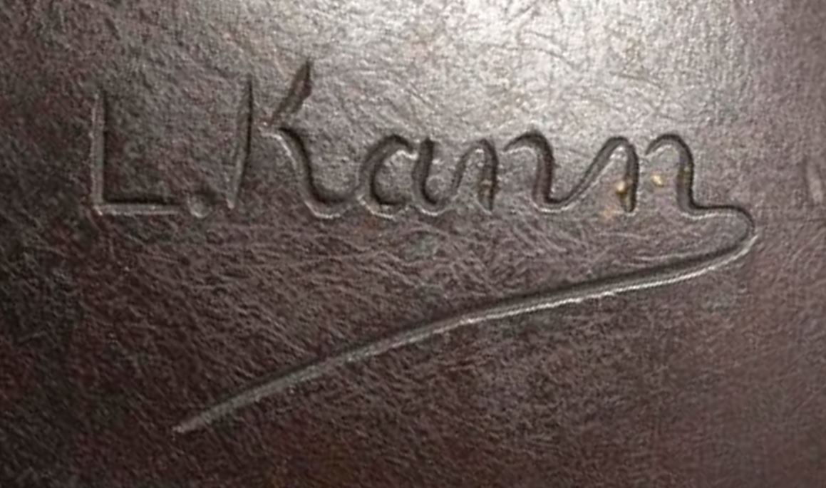 Signature of French sculptor Léon Kann, 1859-1925